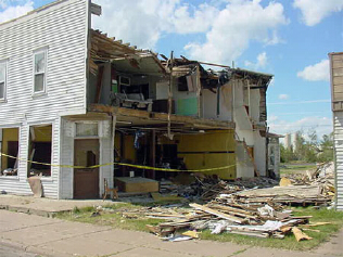 Siren, WI, June 19, 2001 -- This hotel was destroyed in the June 18 tornado. Photo by Dana Trytten/ FEMA News Photo